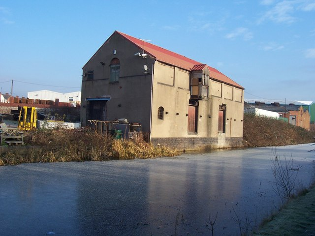 Canalside Warehouse, Pleck - Walsall Canal I'm unsure of its original purpose but it's certainly no longer to do with the canals.